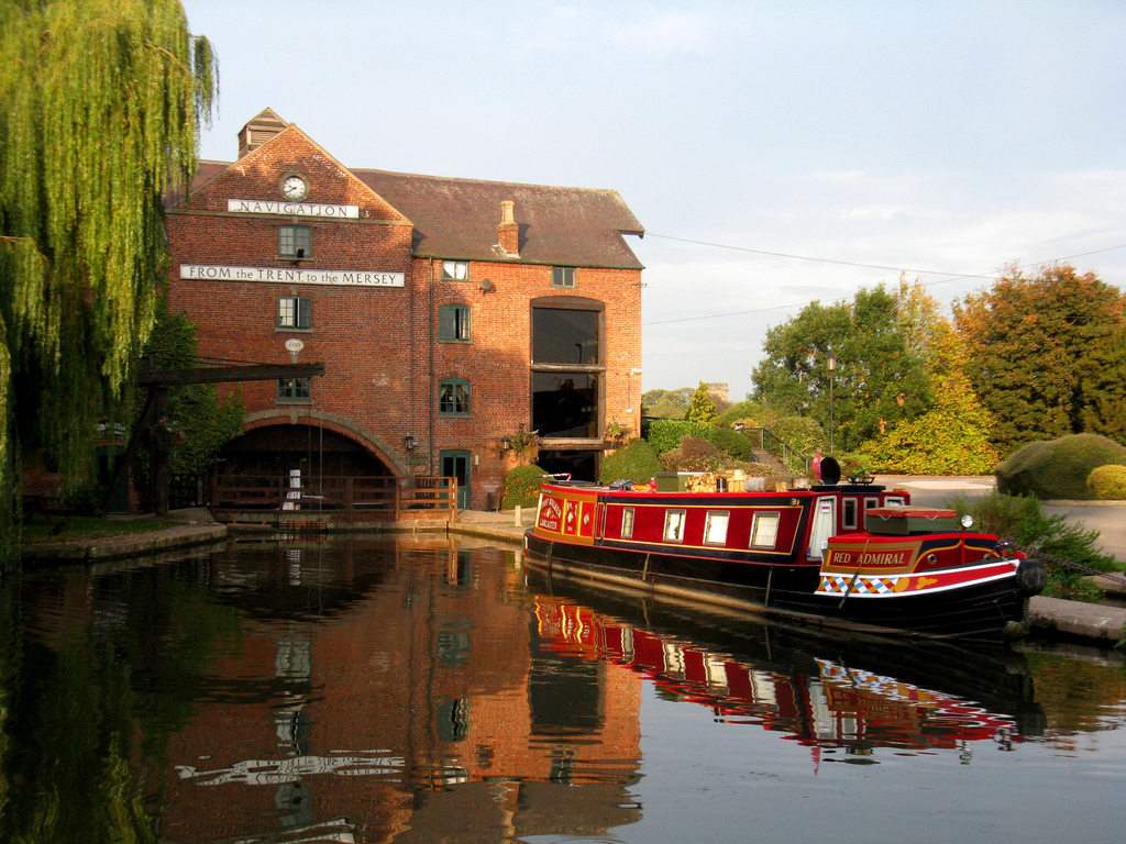 The Trent Mill at Shardlow on the Trent and Mersey Canal. This was restored in 1979 and is now a pub and restaurant.